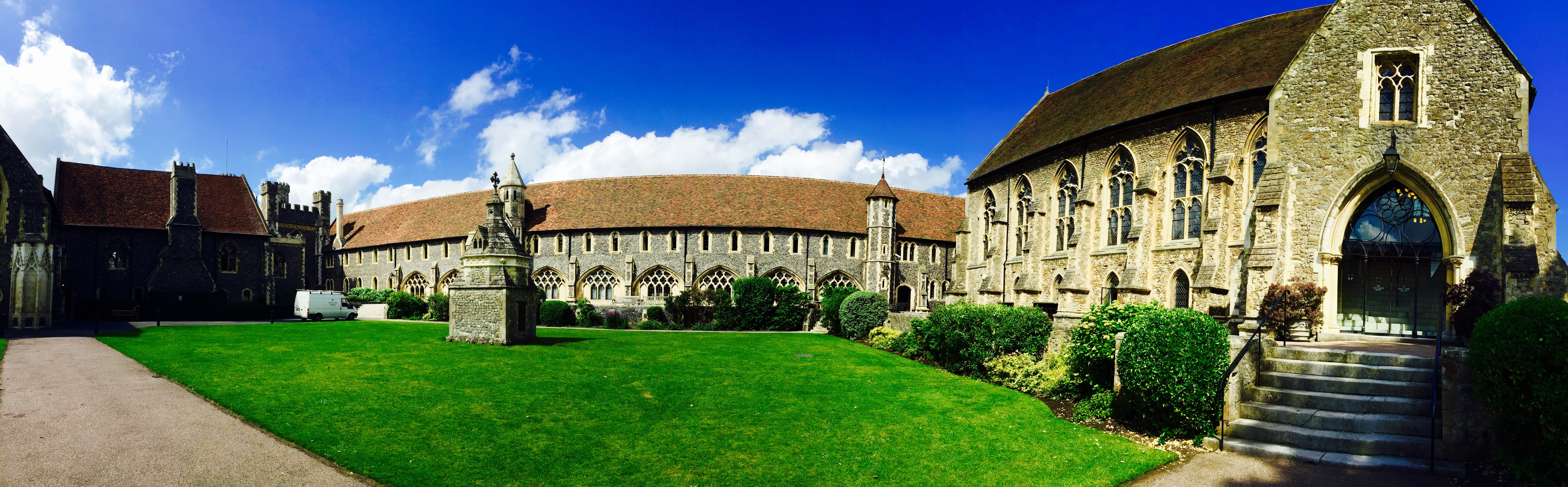 View over the Tradescant boarding house and The School Library. Both were built by William Butterfield in 1848 as the main accommodation block and library for the students of St Augustine’s Missionary College. The cloister was later converted into addition rooms and acquired by The King's School in 1976 when it became Tradescant, and the library was moved to this present location in 1990.